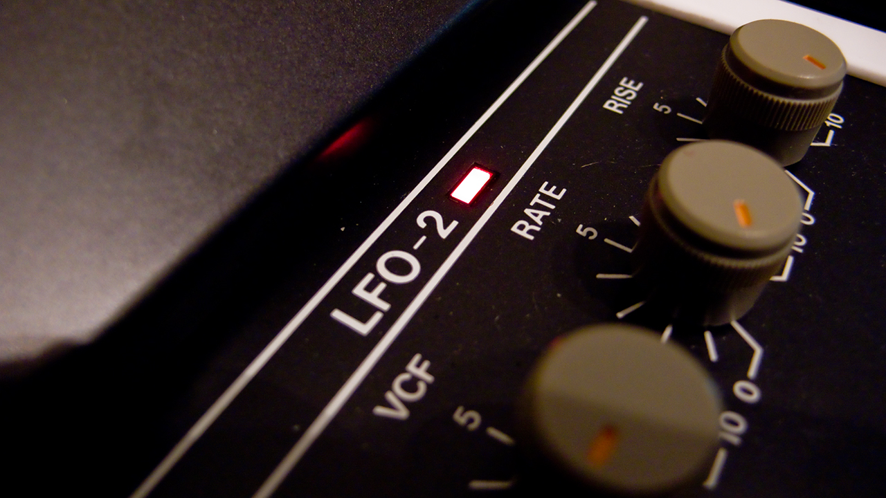 Roland Jupiter 6 - LFO-2 6-voice polyphonic analog subtractive synthesizer from '83. Almost everything on this unit is analog (oscillators, filters, etc). The sound can be a bit thin but using the unison button will fatten the sound considerably! This unit doesn't have any on-board effects.